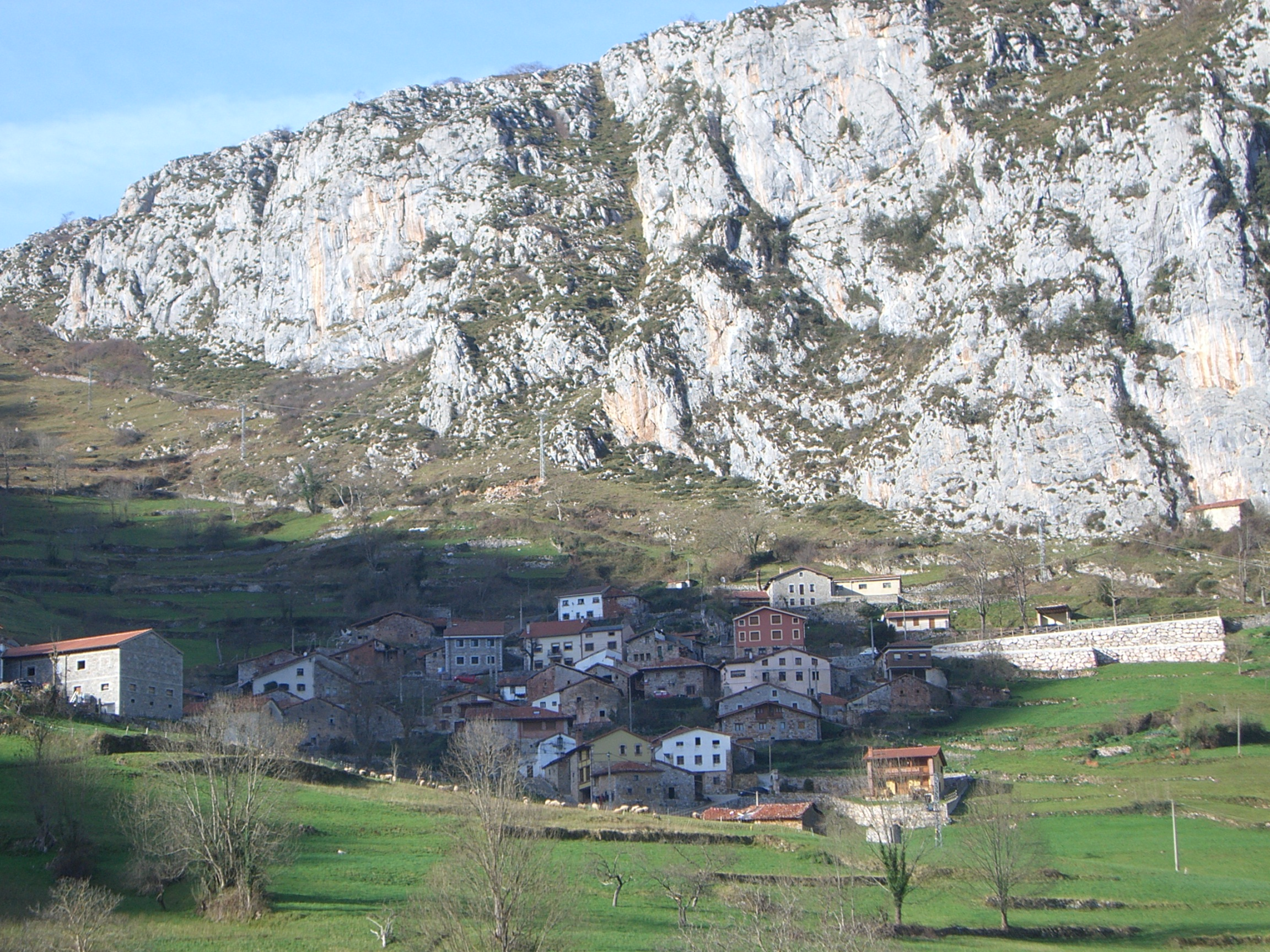 The village of Bejes in Cantabria.